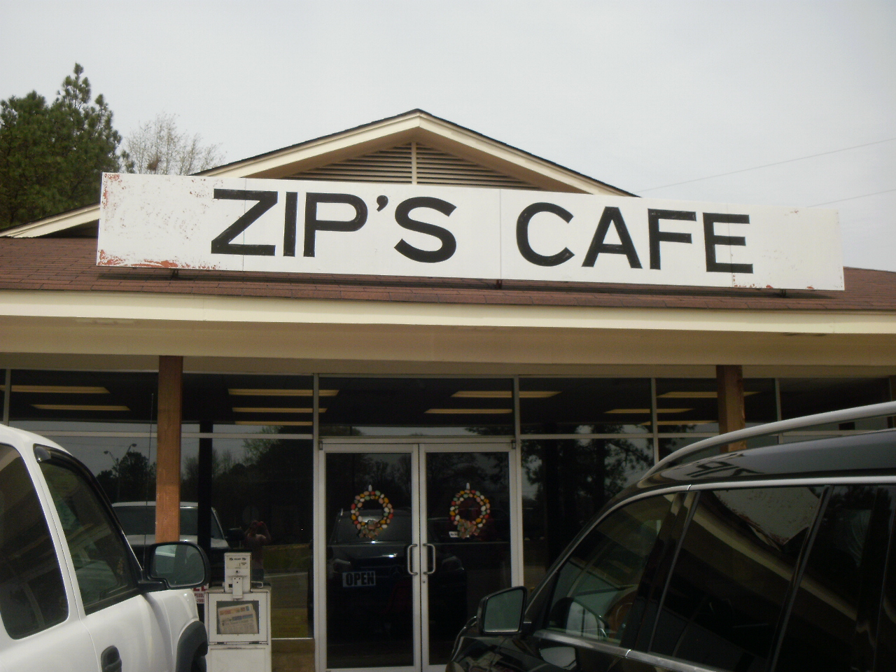 Zip's Home of the Zip Burger in Magee,Mississippi